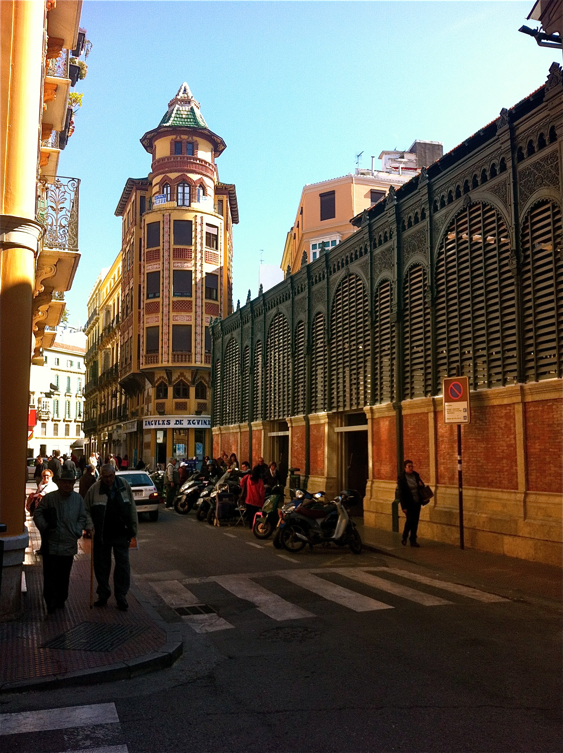 Málaga, Spain.